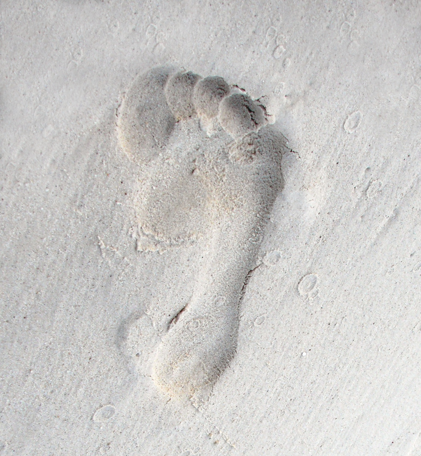 Footprint on earth... Photograph from Maldives